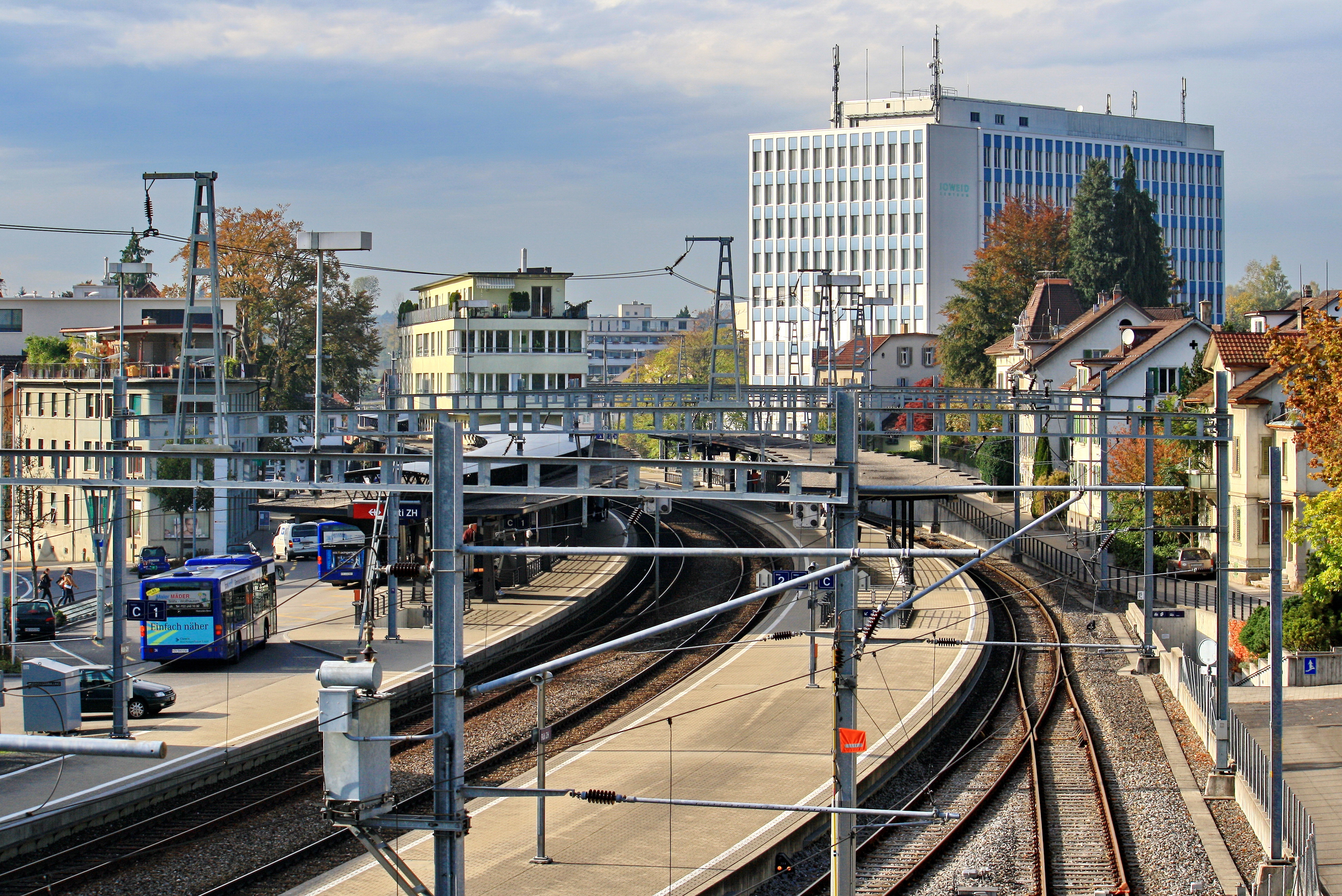 Train station Rüti (ZH) in Switzerland, as seen from Walderstrasse, Bahnhofstrasse to the left, Wettsteinweg to the right, Joweid Center in the background.